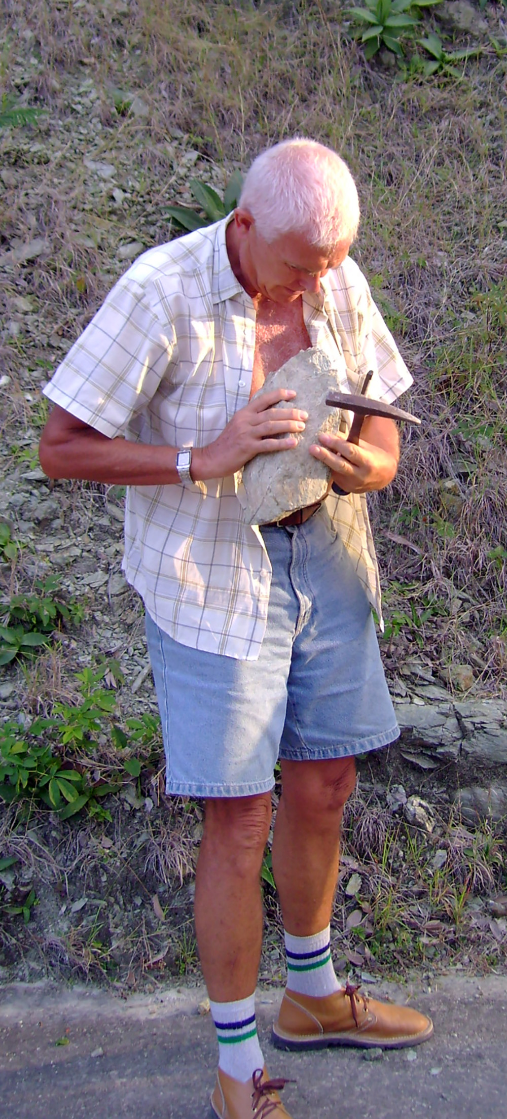 Alfred Kroner in eastern Cuba 2007